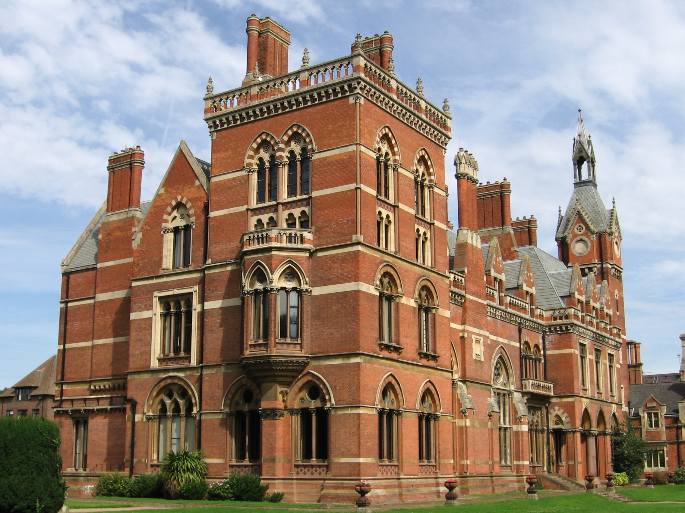 Kelham Hall - south-east corner